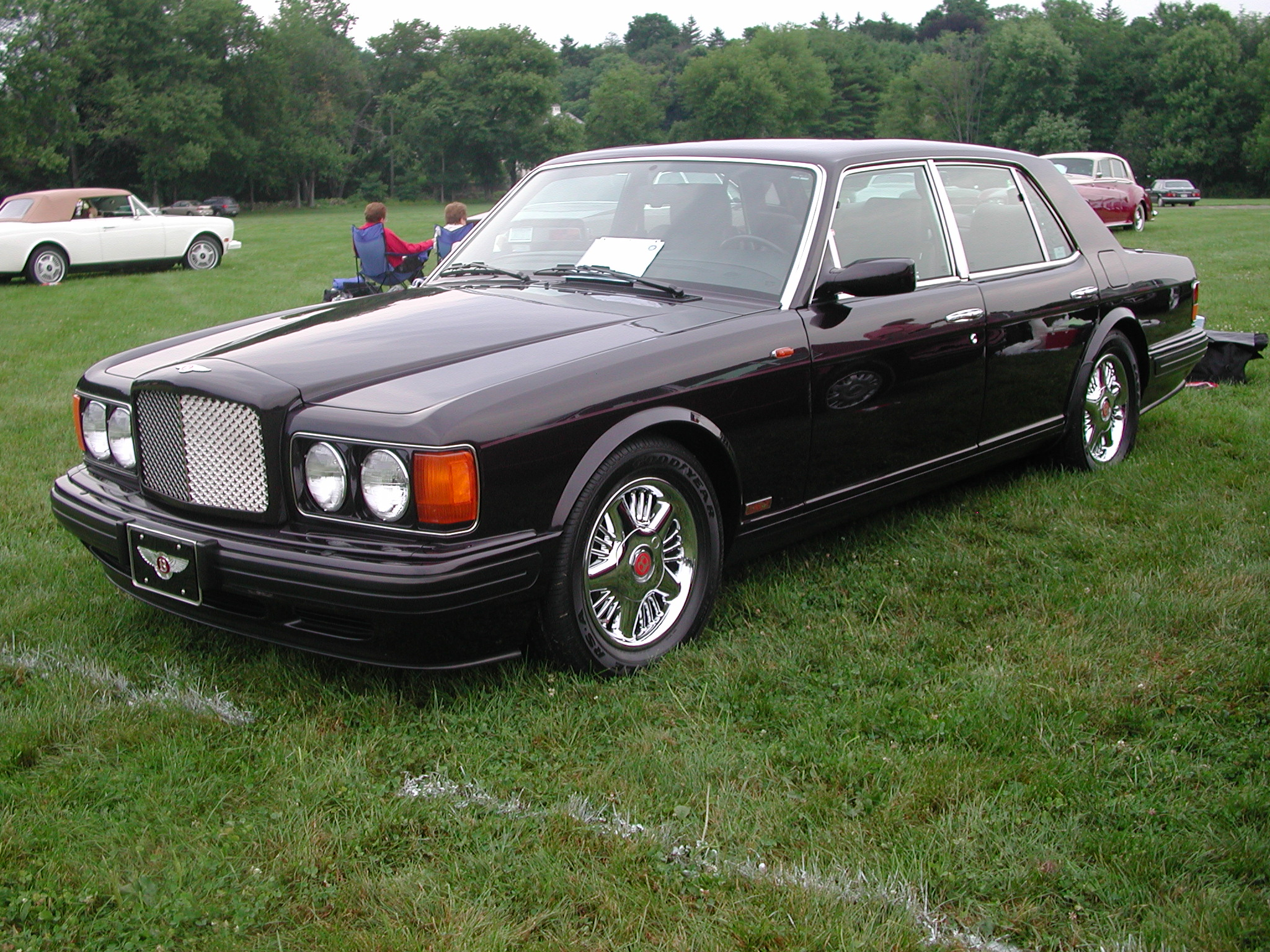 1997 Bentley Turbo R